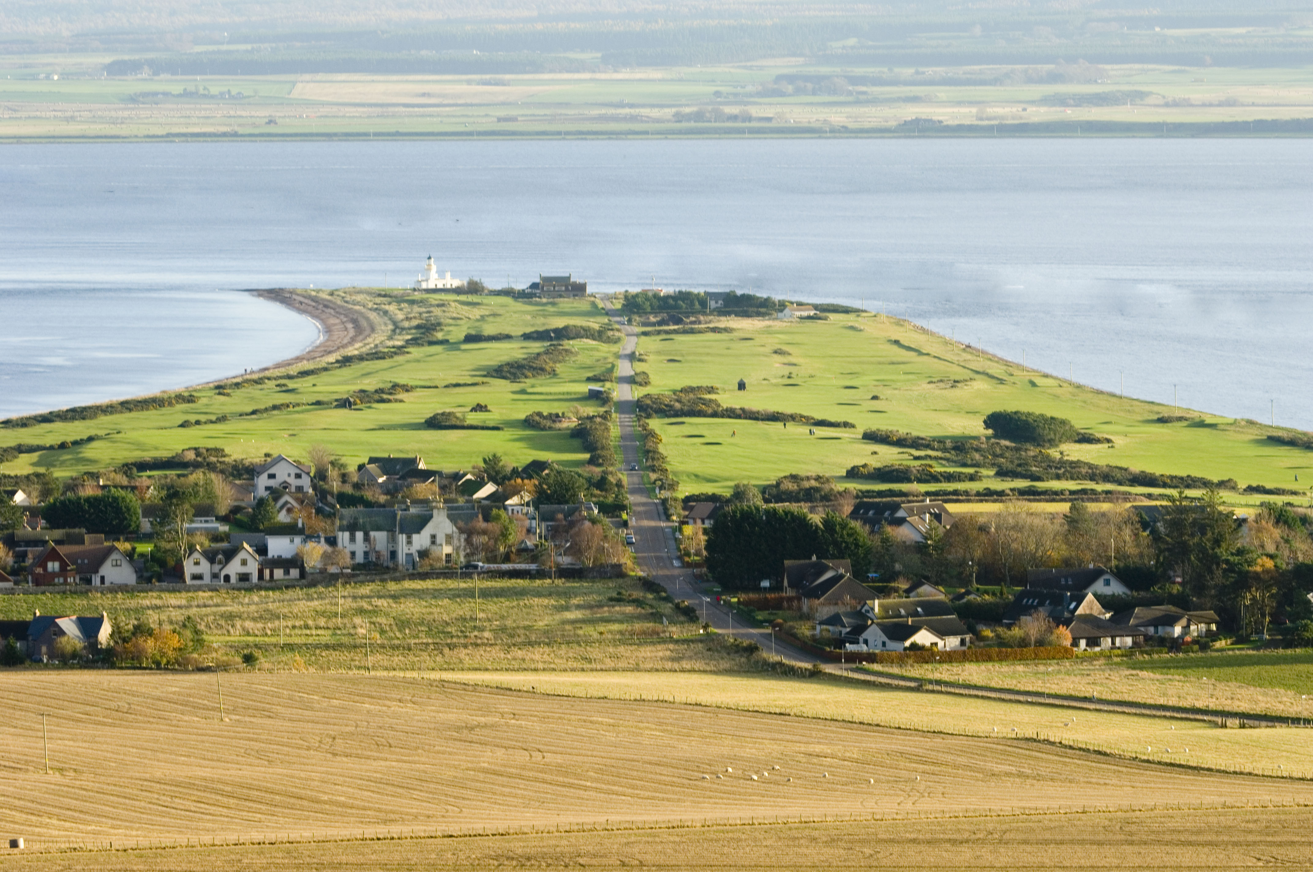 Peter Asprey